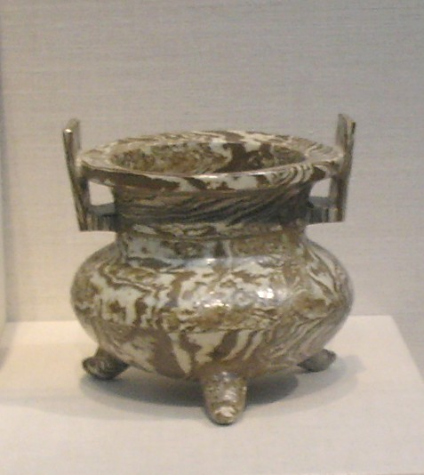 A Chinese Yuan Dynasty (1279-1368 AD) stoneware incense burner, cizhou-type with a transparent colorless glaze, made in the late 13th or 14th century. From the Freer and Sackler Galleries of Washington D.C. Author: User:PericlesofAthens Date: August 3, 2007